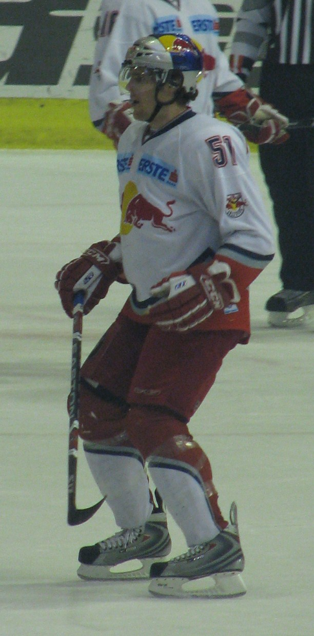 Matthias Trattnig